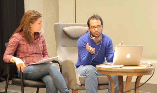 Sohrab Kashani speaks at YARAT Contemporary Art Centre in Baku